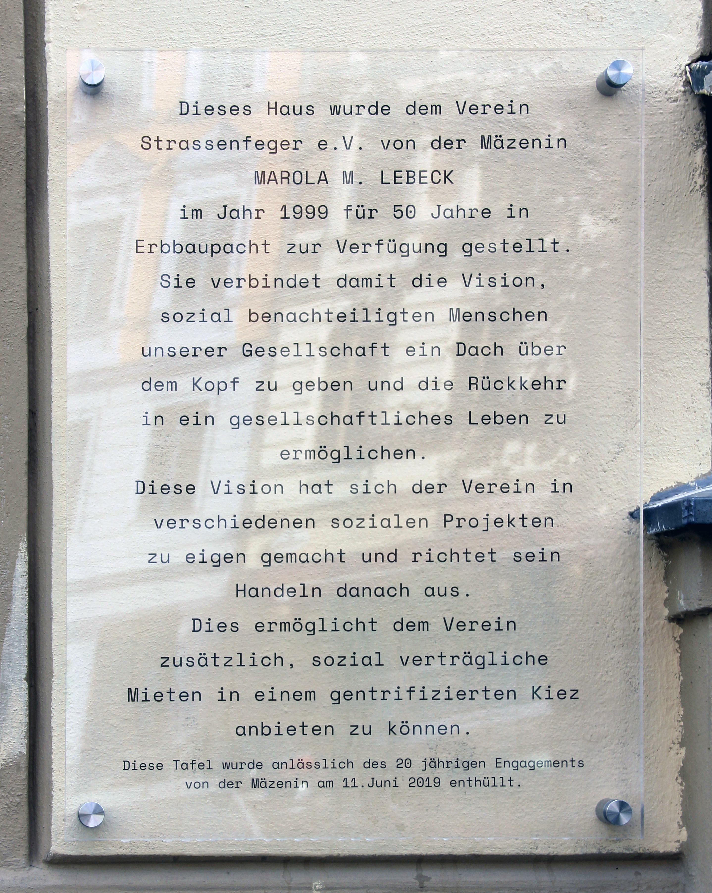 Memorial plaque, Marola M. Lebeck, Oderberger Straße 12, Berlin-Prenzlauer Berg, Germany